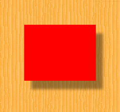 A drop shadow with blurred edges